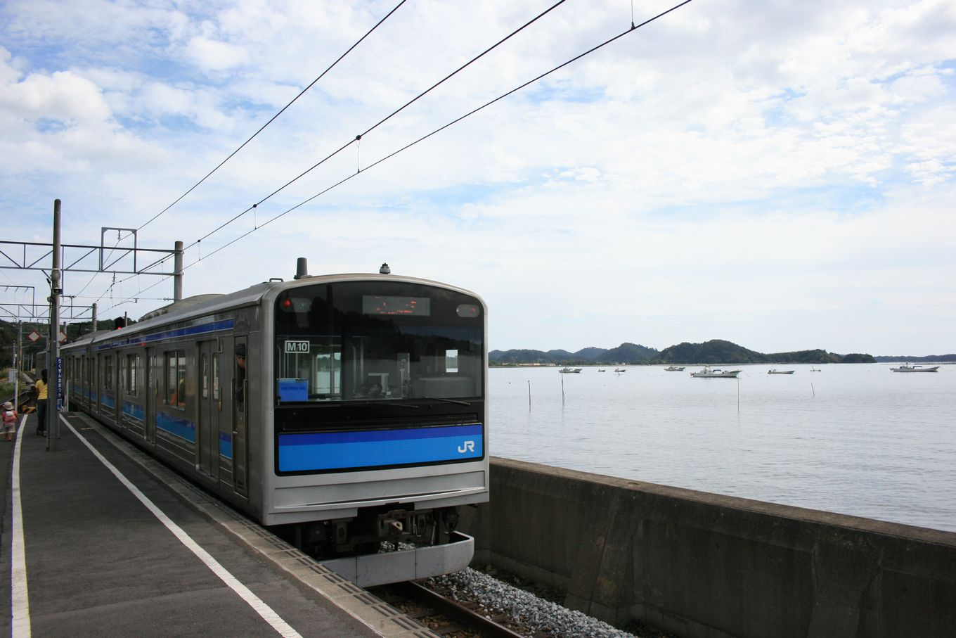 Rikuzen-Ōtsuka Station, Higashimatsushima, Miyagi, Japan